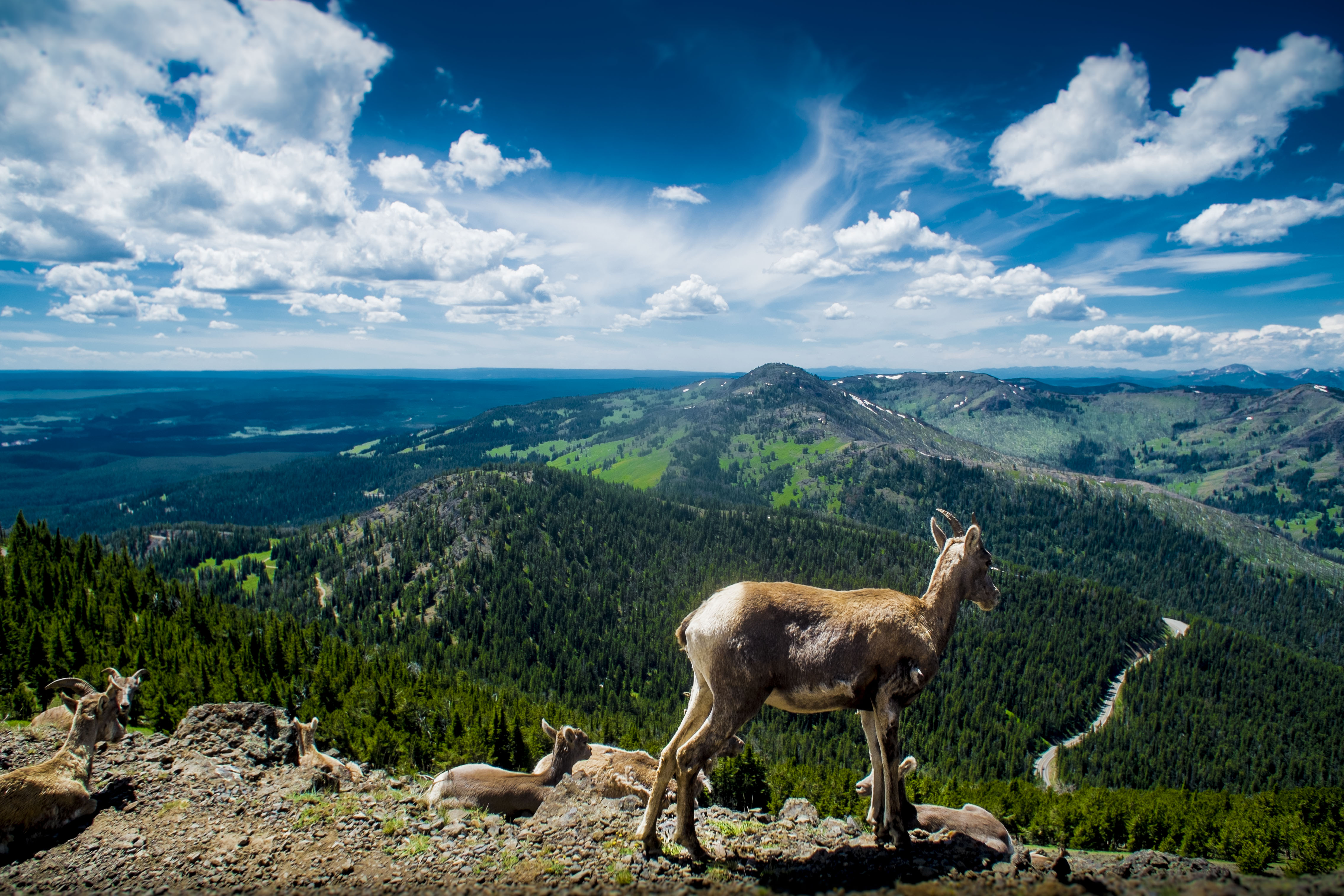 Mount Washburn with mountain sheep, Yellowstone National Park, 400 feet below summit. July 22, 2014.